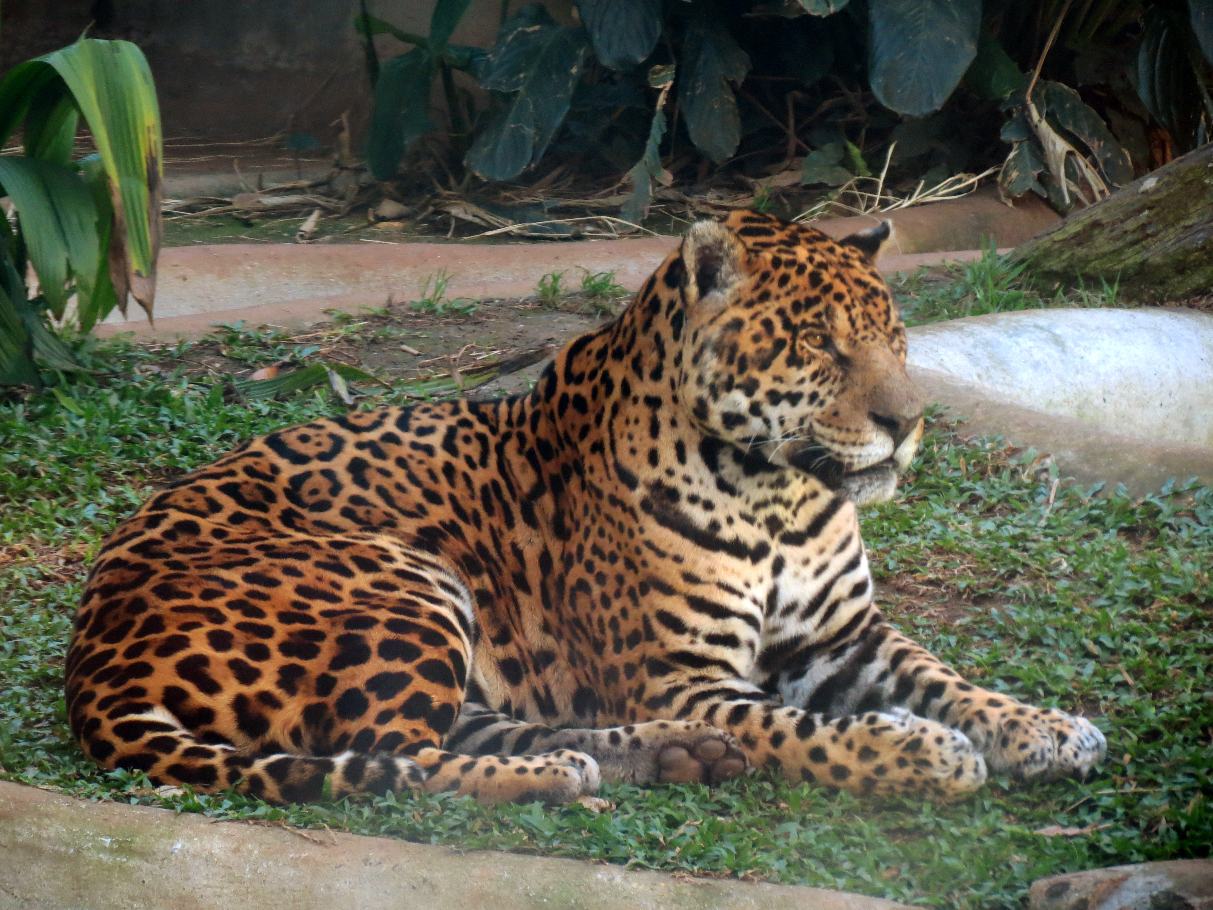 A jaguar (Panthera onca) in São Paulo Zoo.